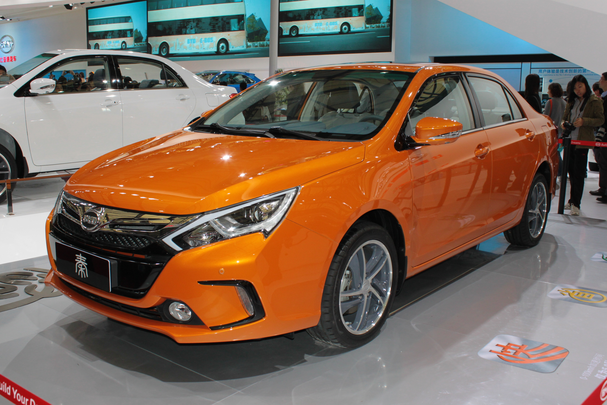 BYD Qin at Auto Shanghai 2013